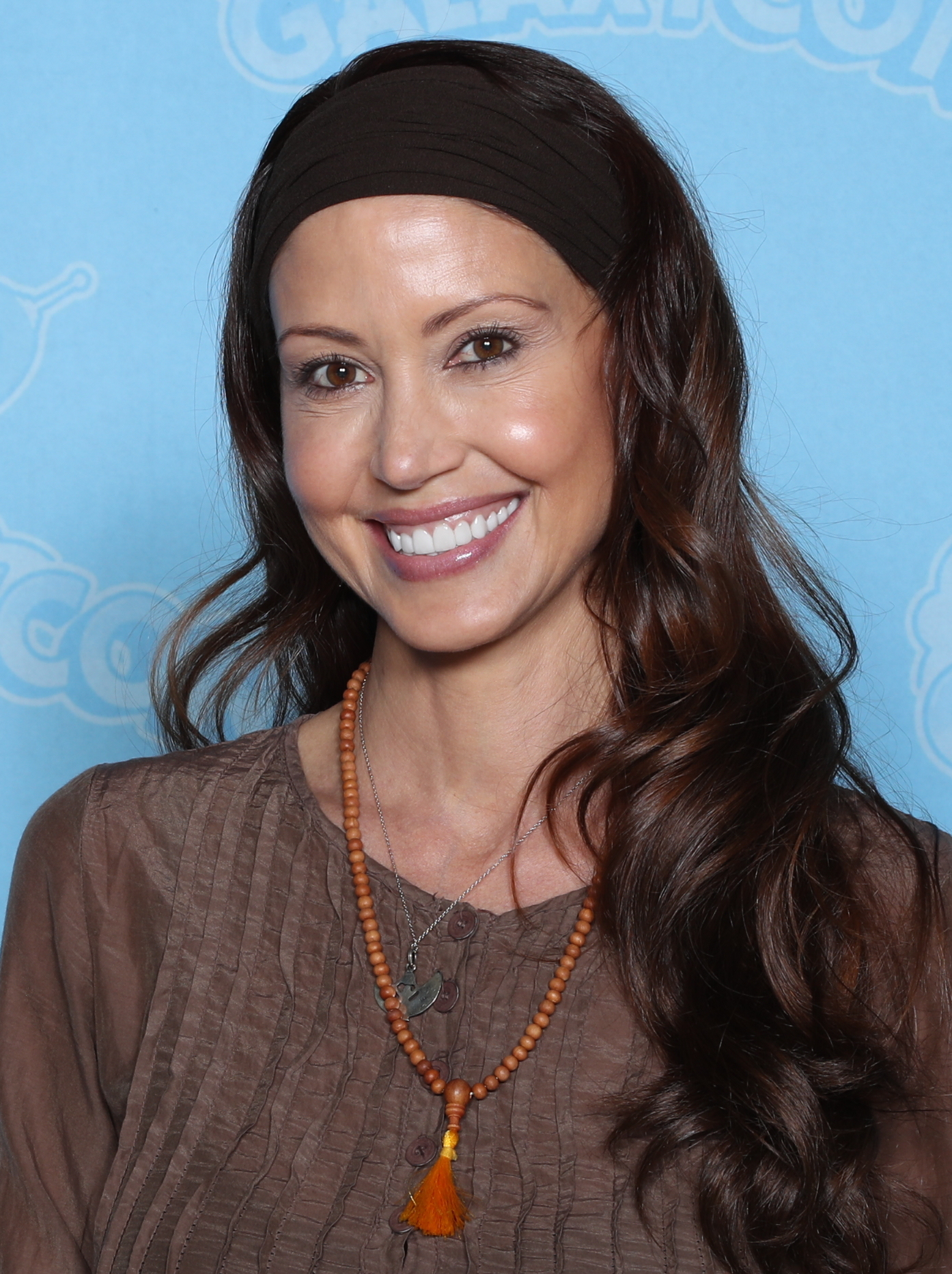 Shannon Elizabeth at GalaxyCon Richmond in 2020